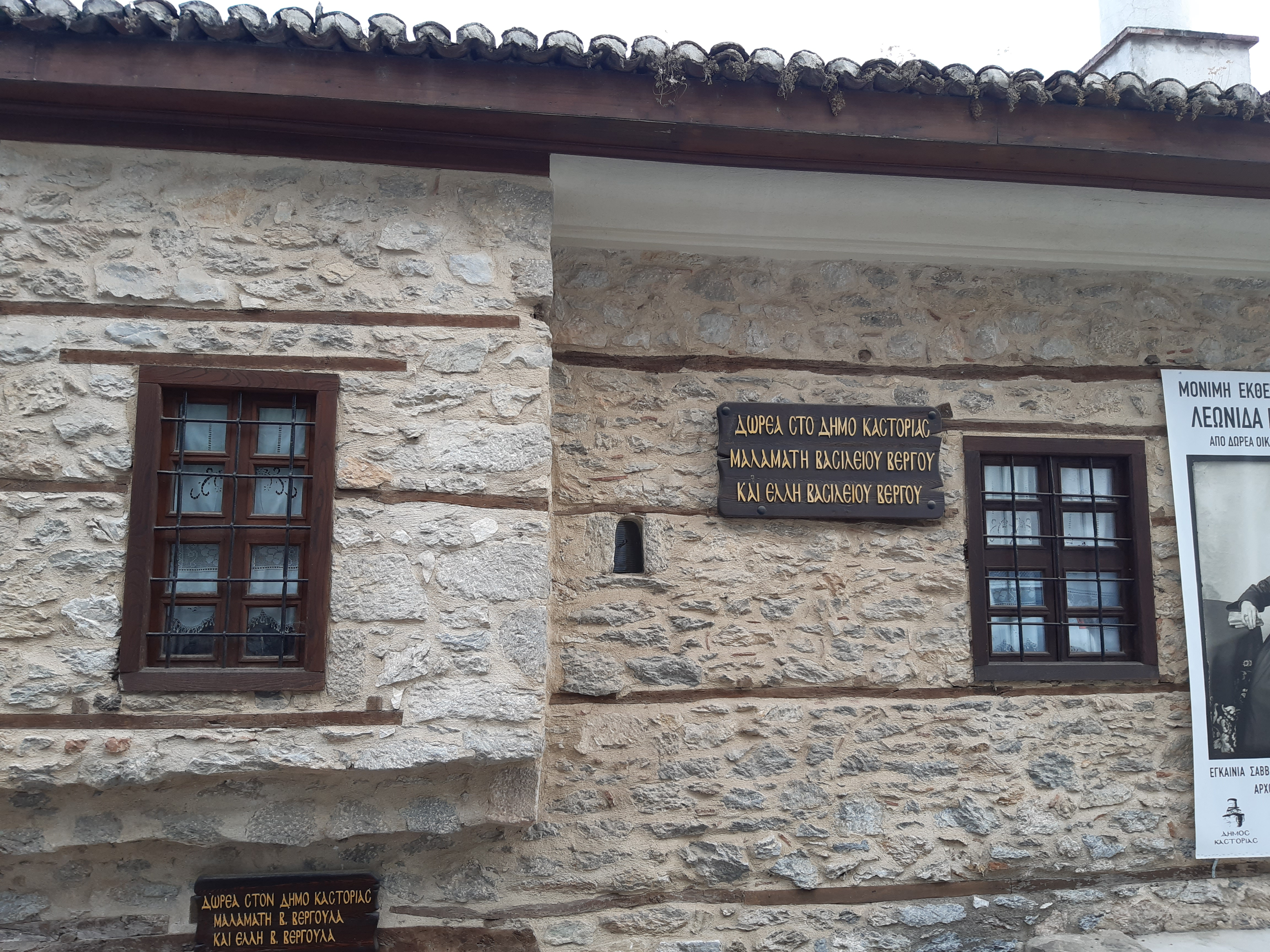 Vergoulas Mansion (1850)